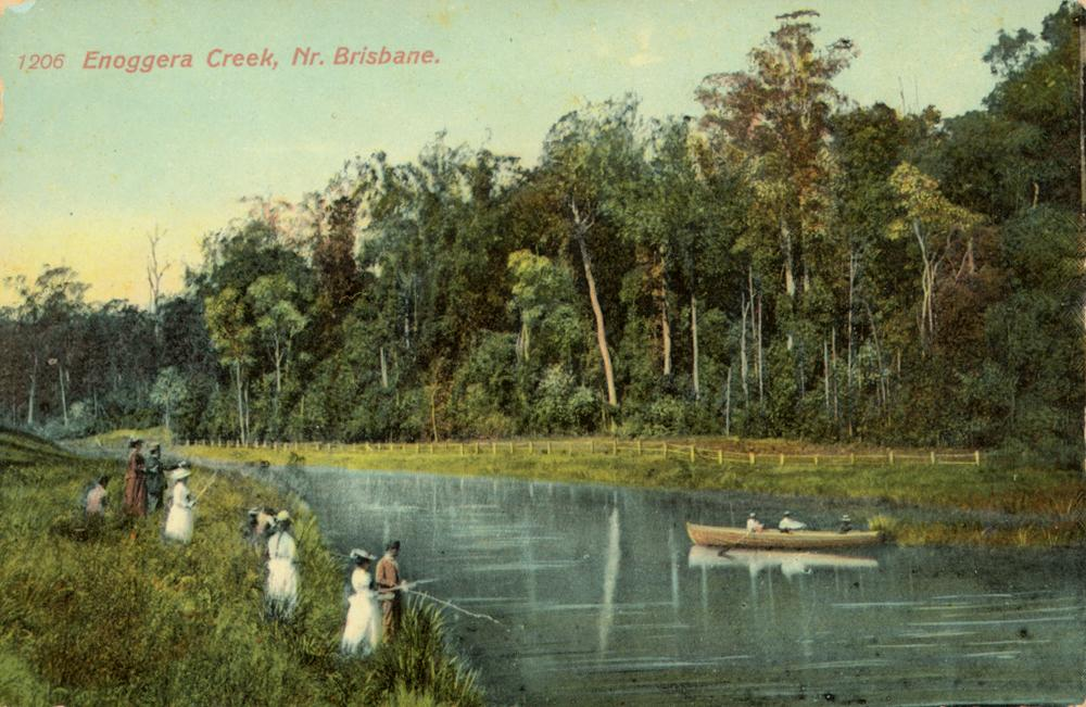 Fishing and boating parties at Enoggera Creek, Brisbane, ca. 1900. Coloured postcard of fishing and boating parties at Enoggera Creek, Brisbane, ca. 1900. The people fishing and rowing are finely dressed.